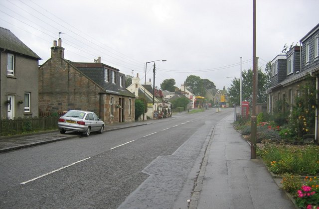 Newton. Small village between Queensferry and Linlithgow. Like many West Lothian villages, this was an oil village, having once had shale mines. There are no bings, the shale must have been transported away for processing.